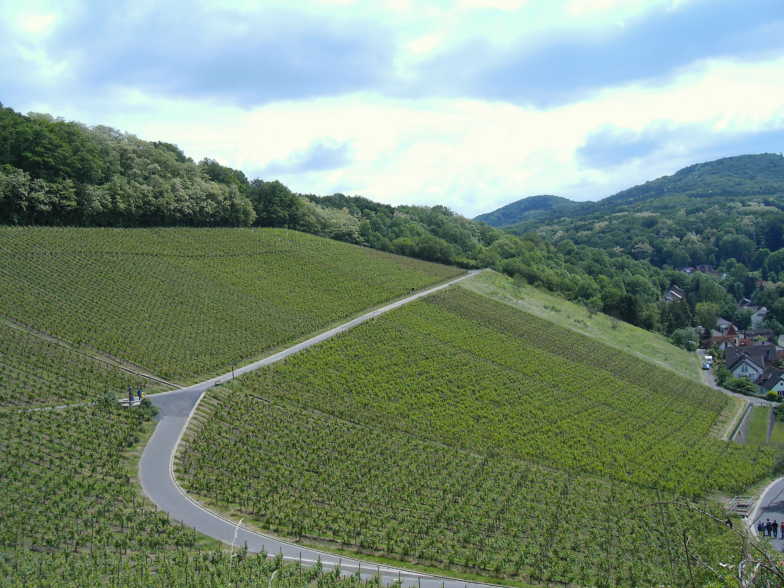 Vineyards in the Königswinterer city district Oberdollendorf